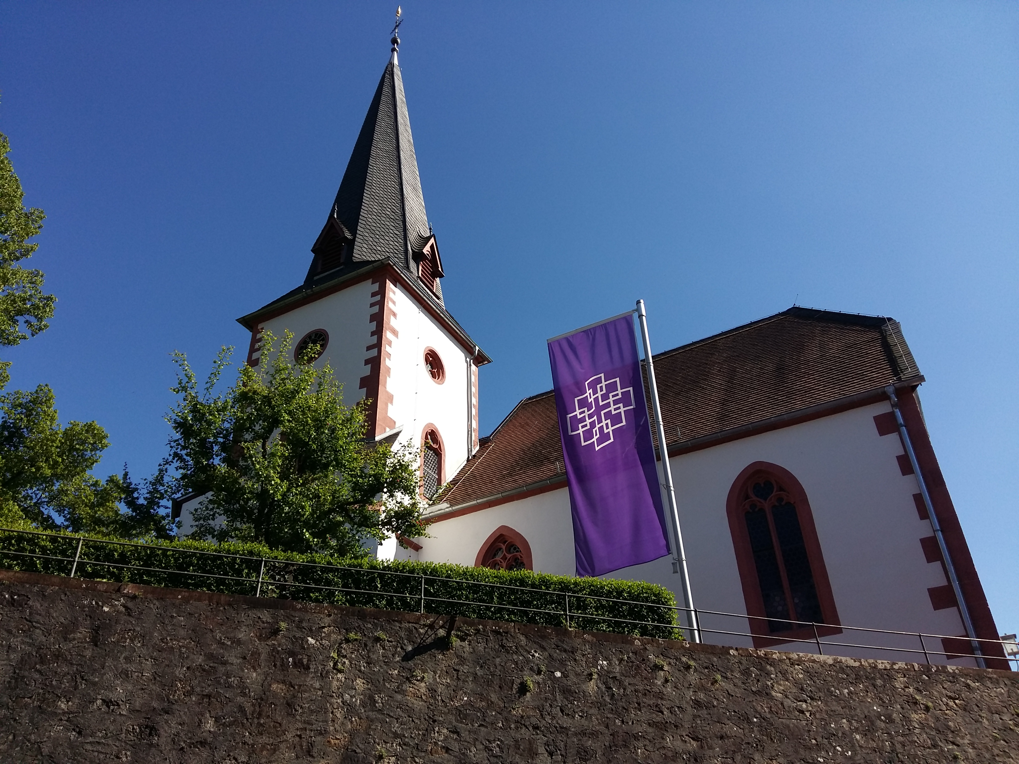 Protestant church in Reinheim-Ueberau